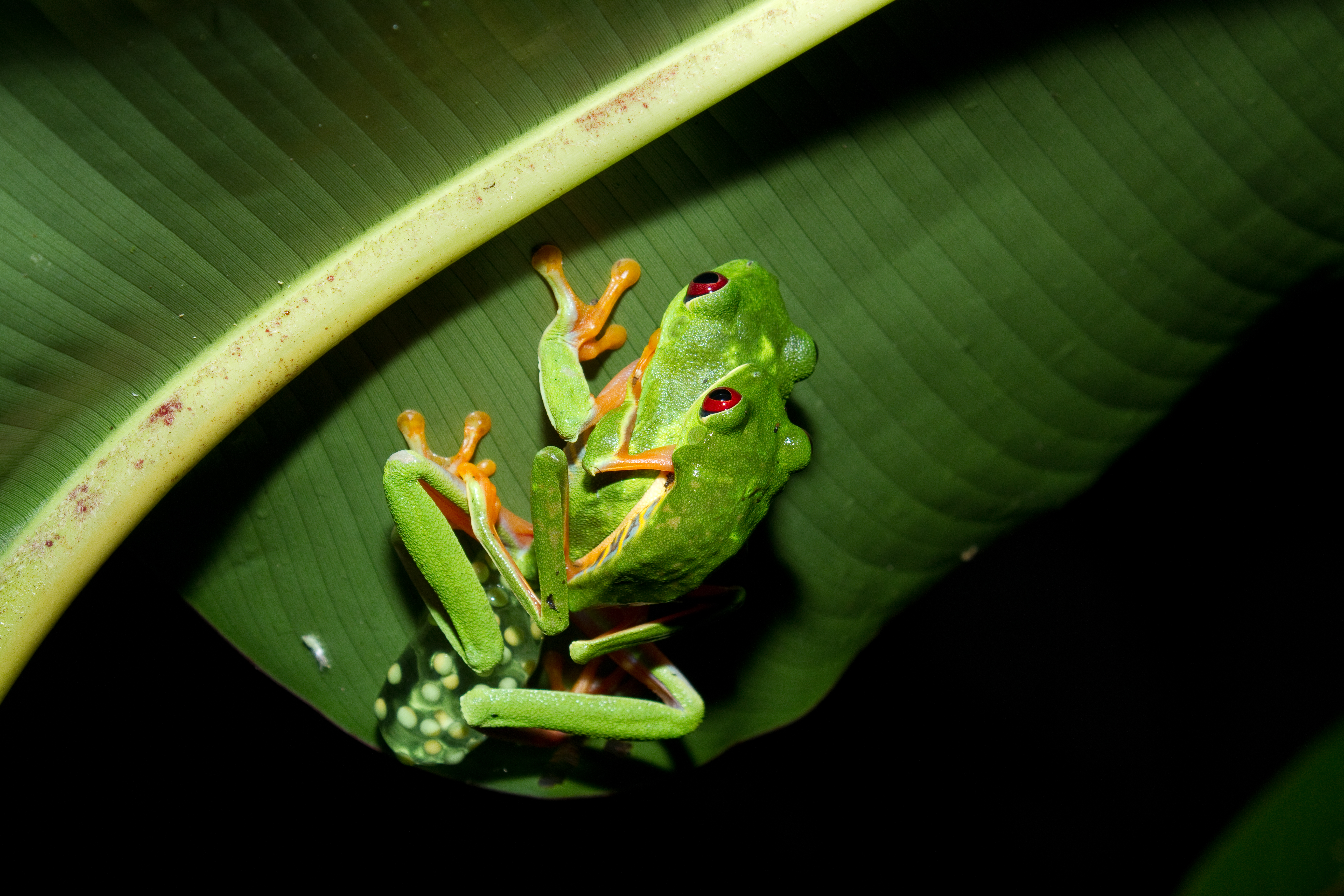 Red-eyed Treefrogs spawning panama july 2011